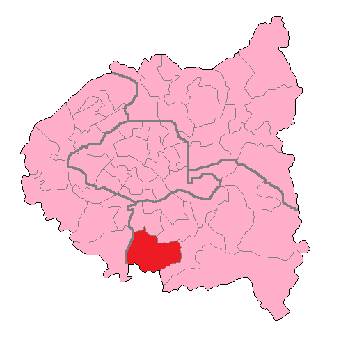 Map of Val-de-Marne's 7th constituency shown within Ile-de-France (Petite Couronne)